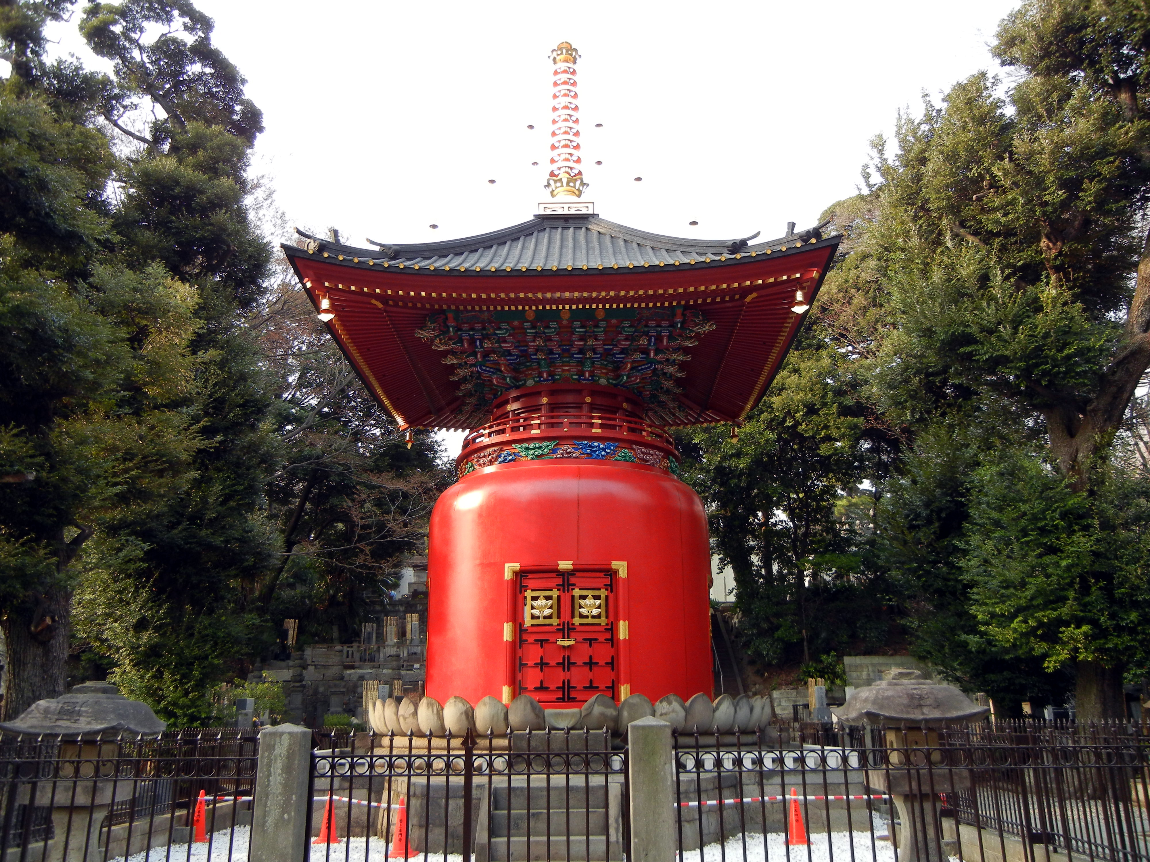 Hōtō (Pagoda) of Ikegami Honmon-ji Temple in Tokyo, Japan